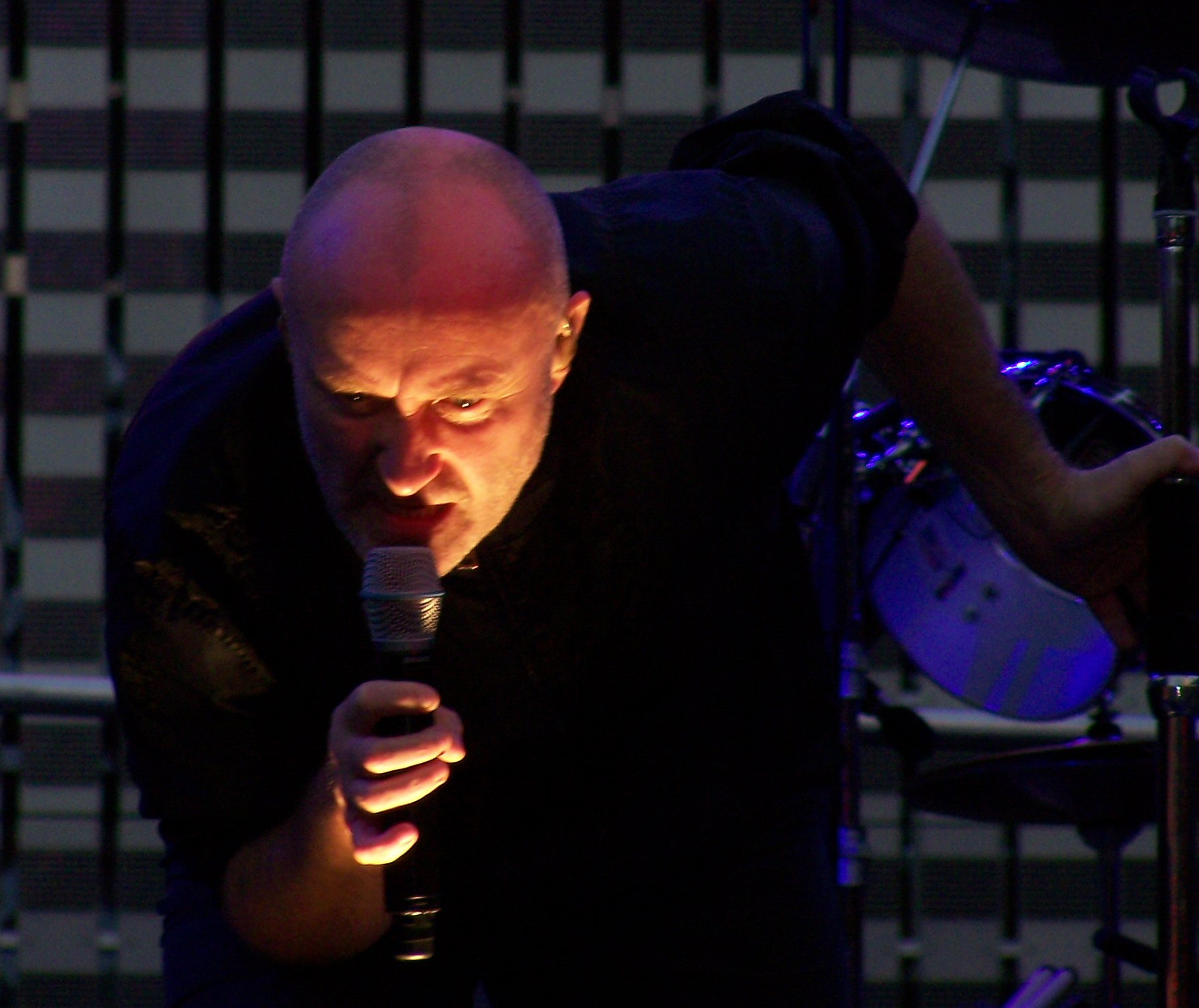 Phil Collins during Mama at Manchester